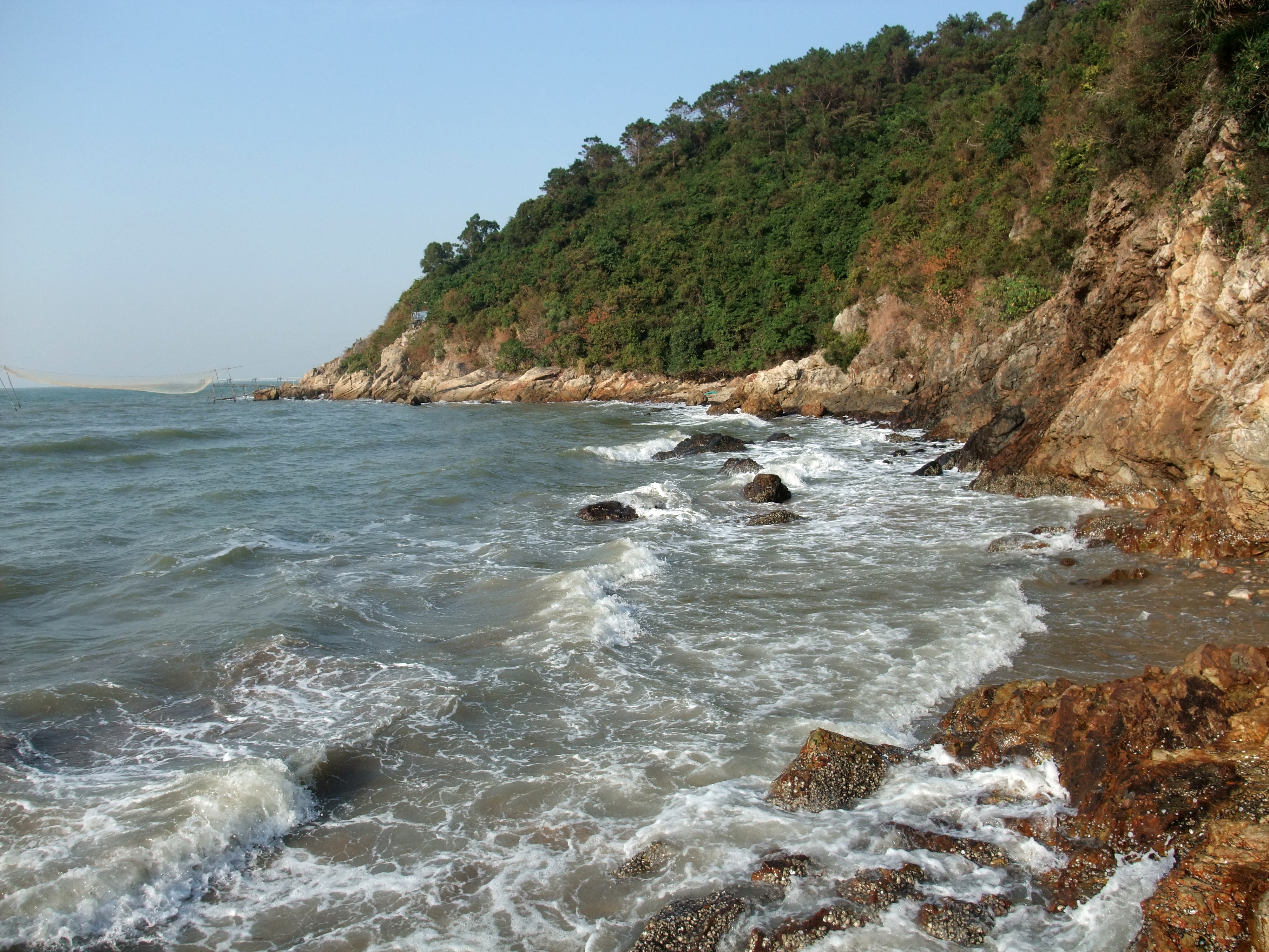 Photo of San Shek Wan